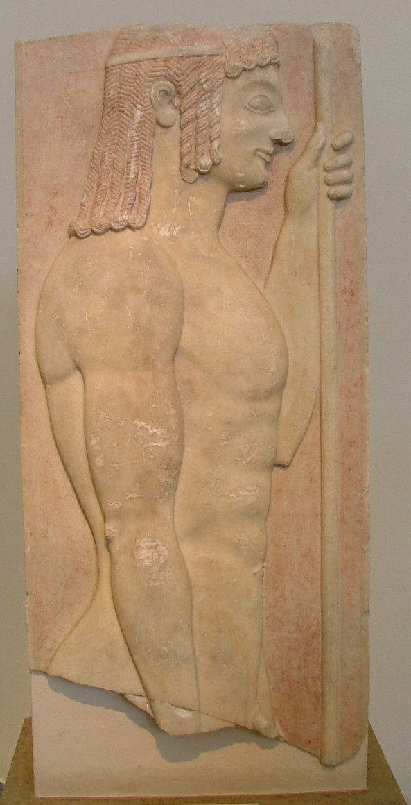 Grave stele. The relief represents a young doryphoros to the right, against a red background. Found in Athens. It was once built into the Themistokleian wall. Parian marble. 550-540 BC. National Archaeological Museum of Athens. (Exhibit number 7901)